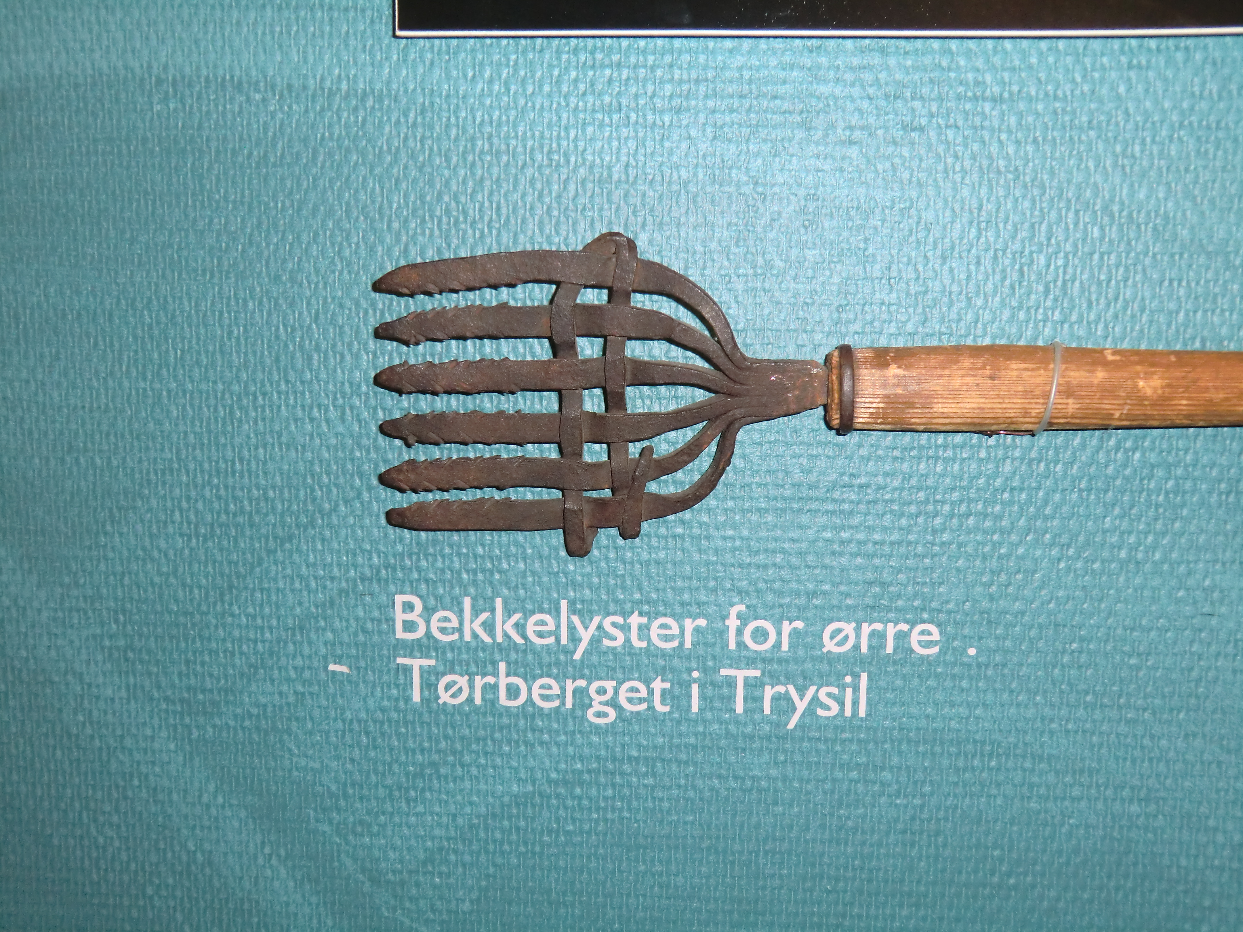 Old fishing pole from Norway.